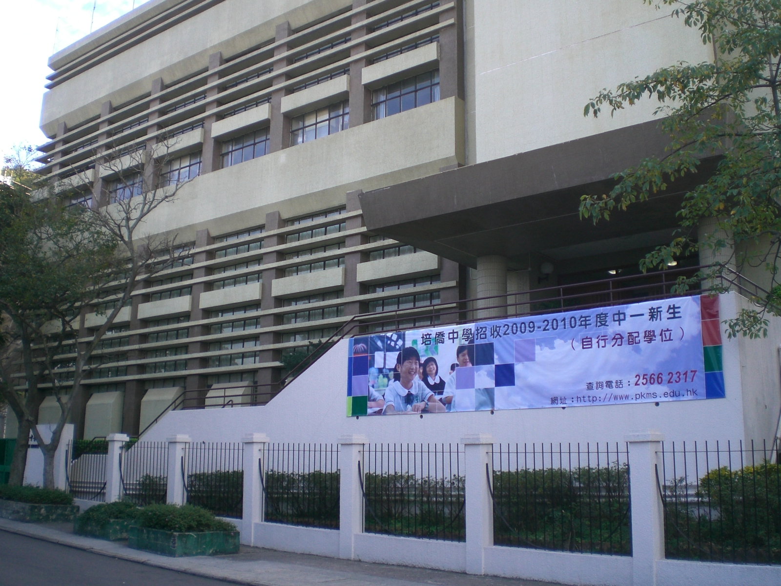 北角zh:寶馬山 培僑中學 天后廟道